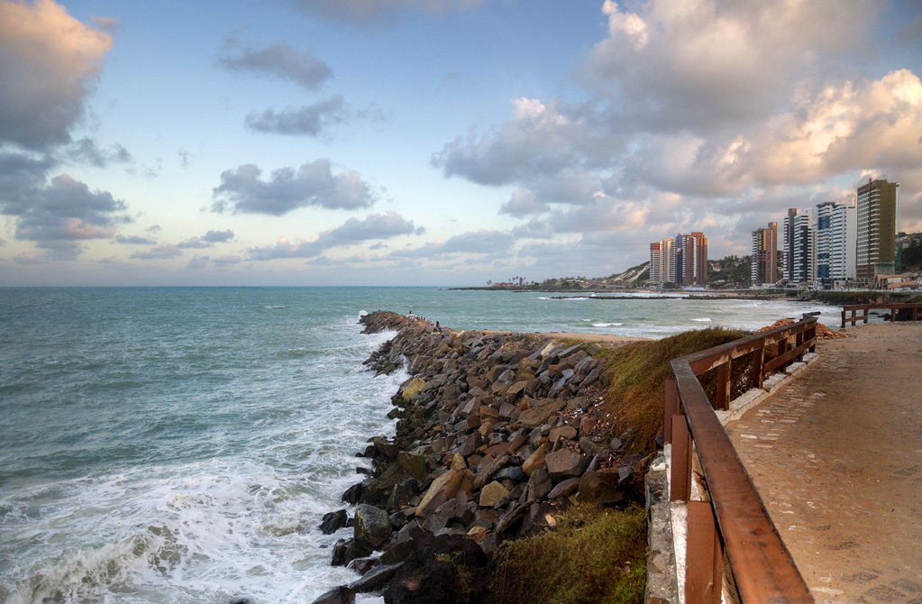 Ponta do Morcego, Natal, Brazil.